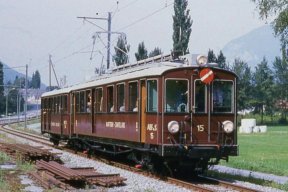 Photo: Trams aux Fils.